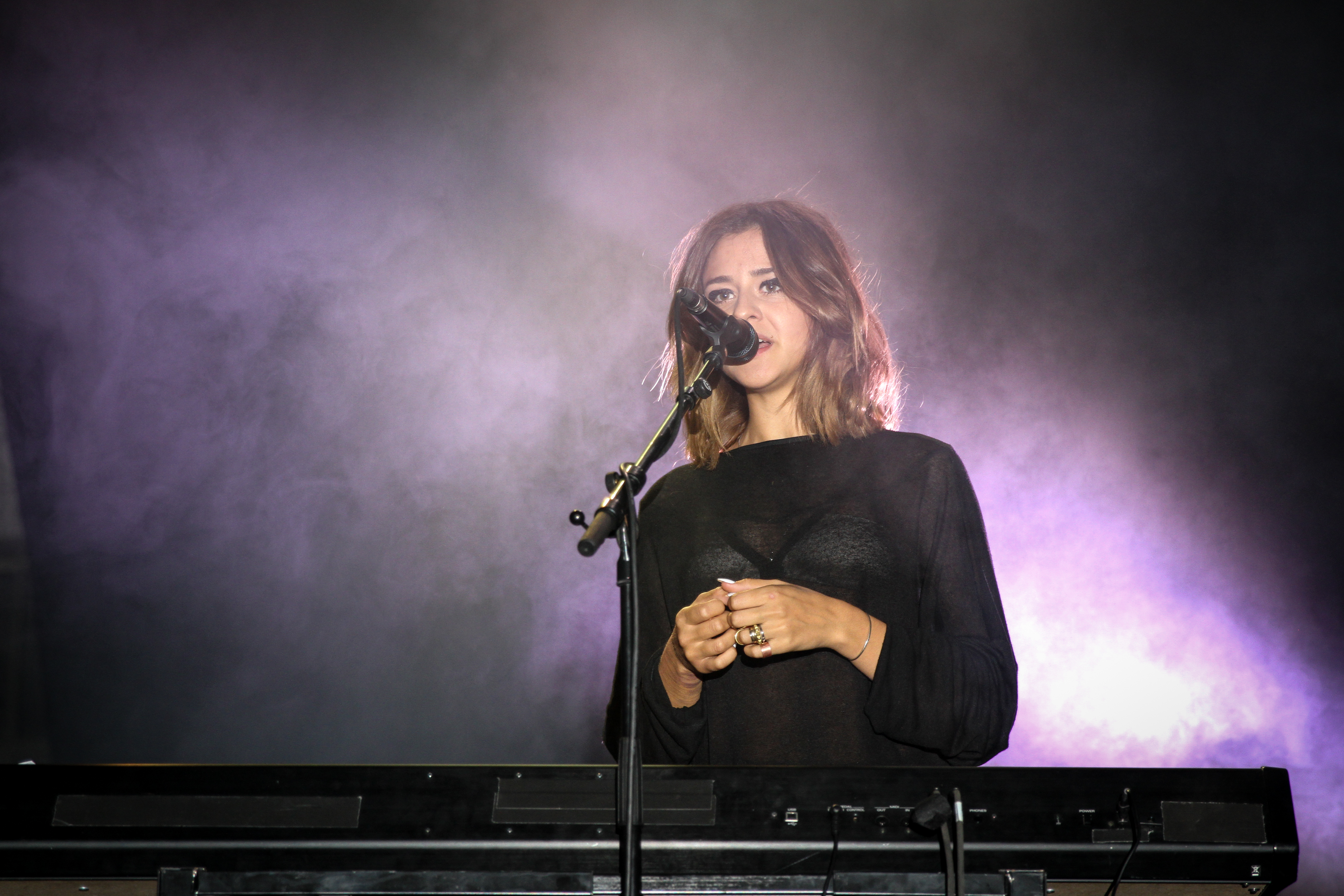 Dillon performing at Berlin Festival 2013